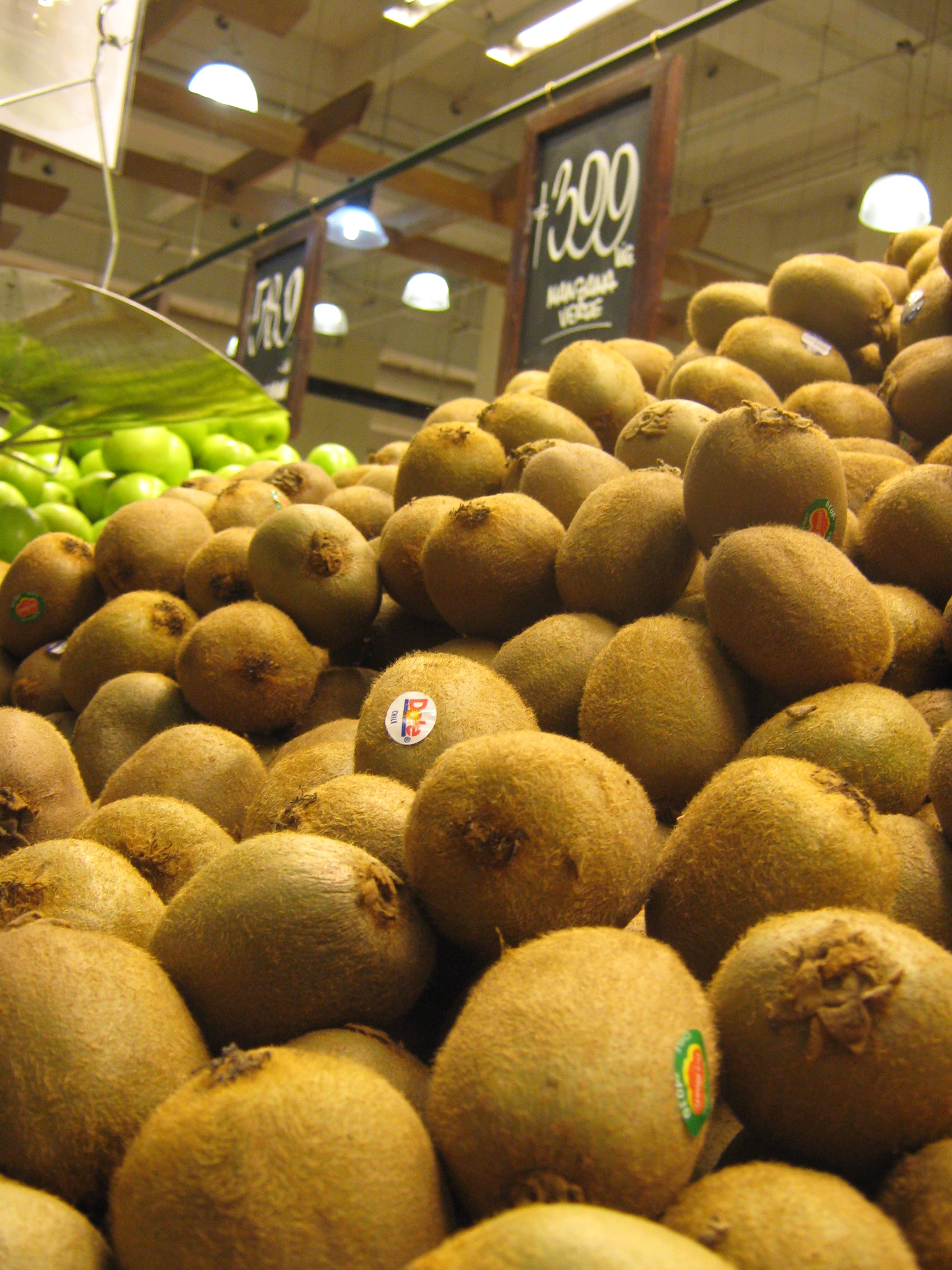 actinidia fruits